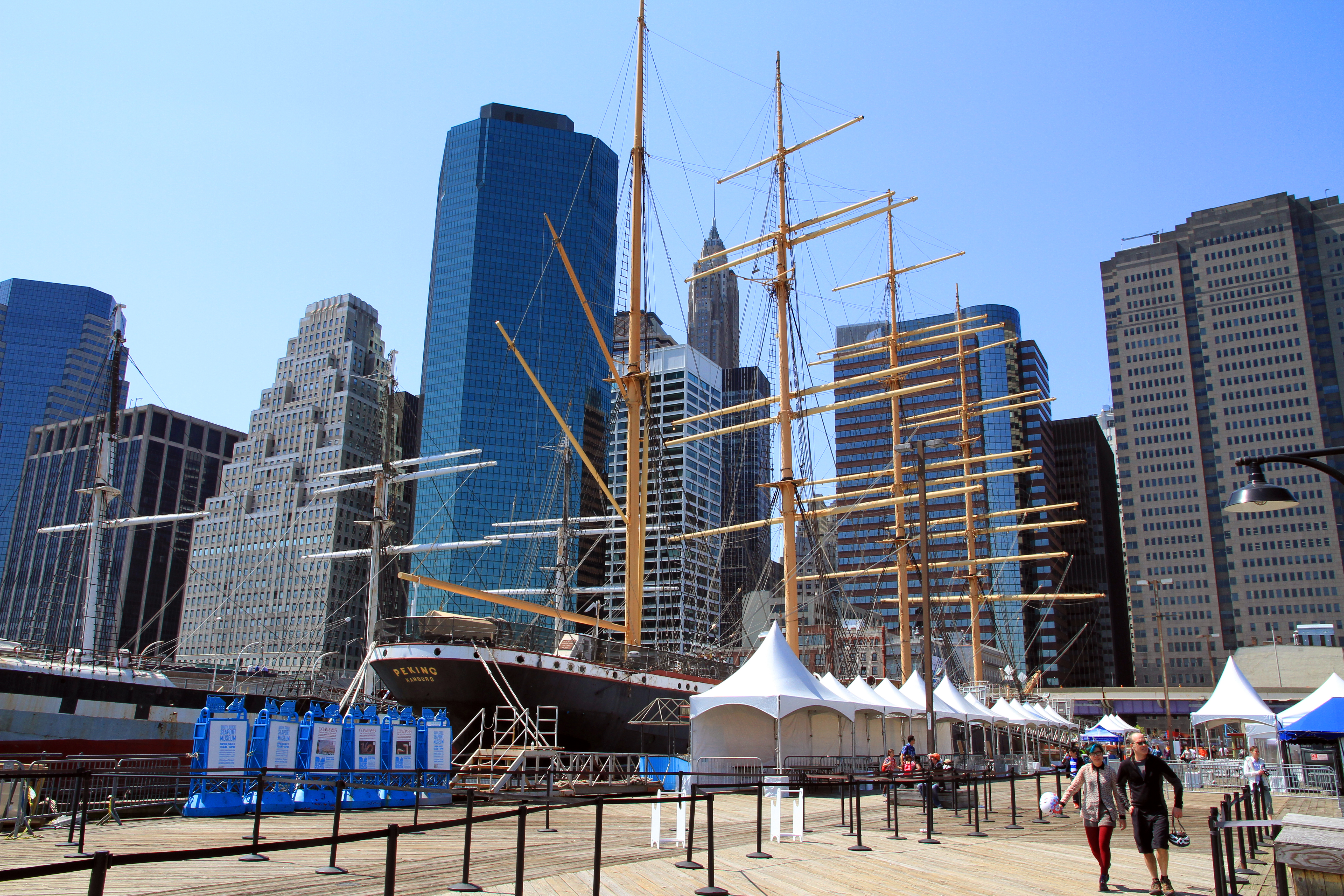 Peking Ship